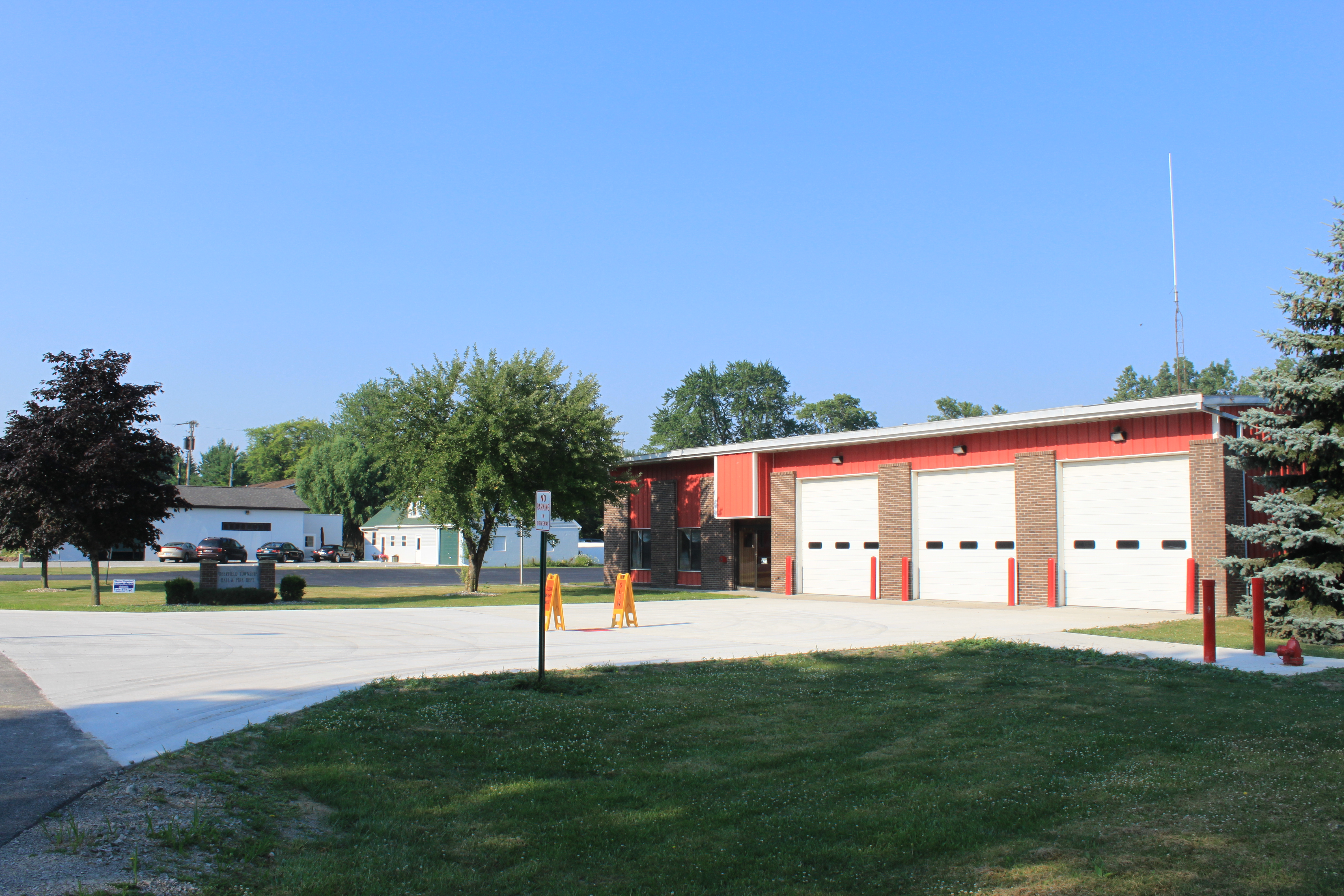 Deerfield Township, Lenawee County, Michigan township hall and fire dept., 468 Carey St., Deerfield